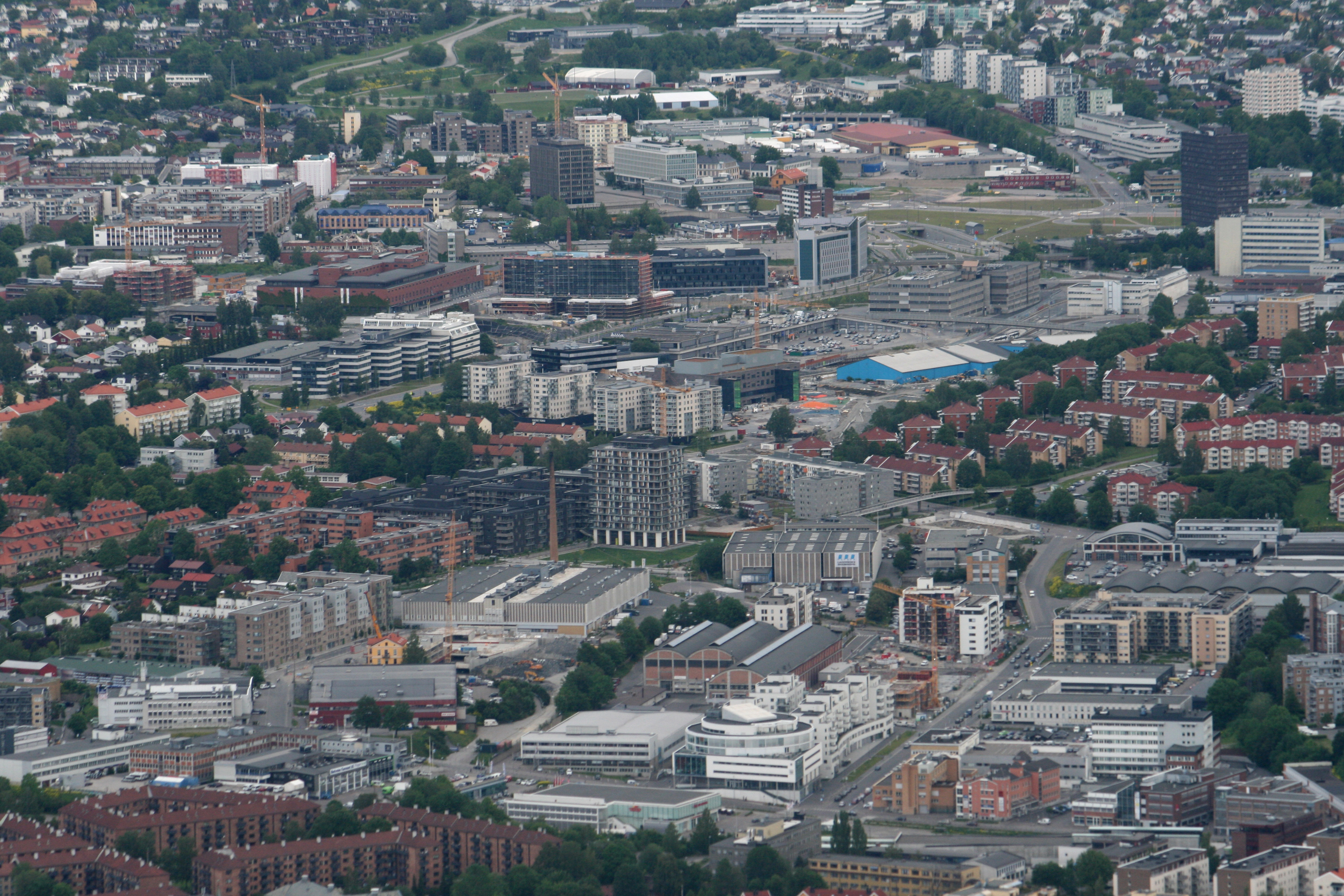 Aerial photograph from June 14th, 2015.